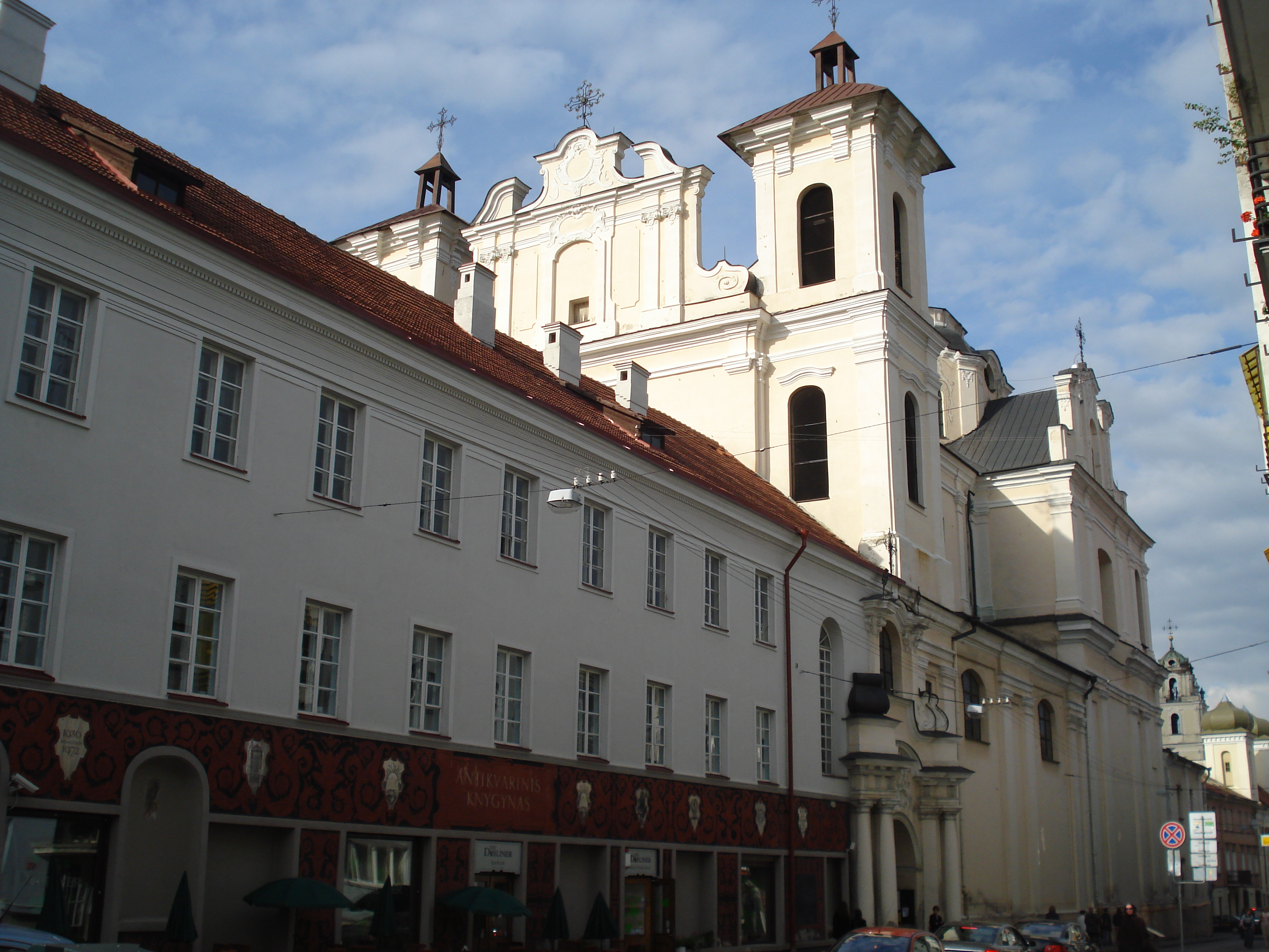 The Dominican Church of the Holy Spirit in Vilnius